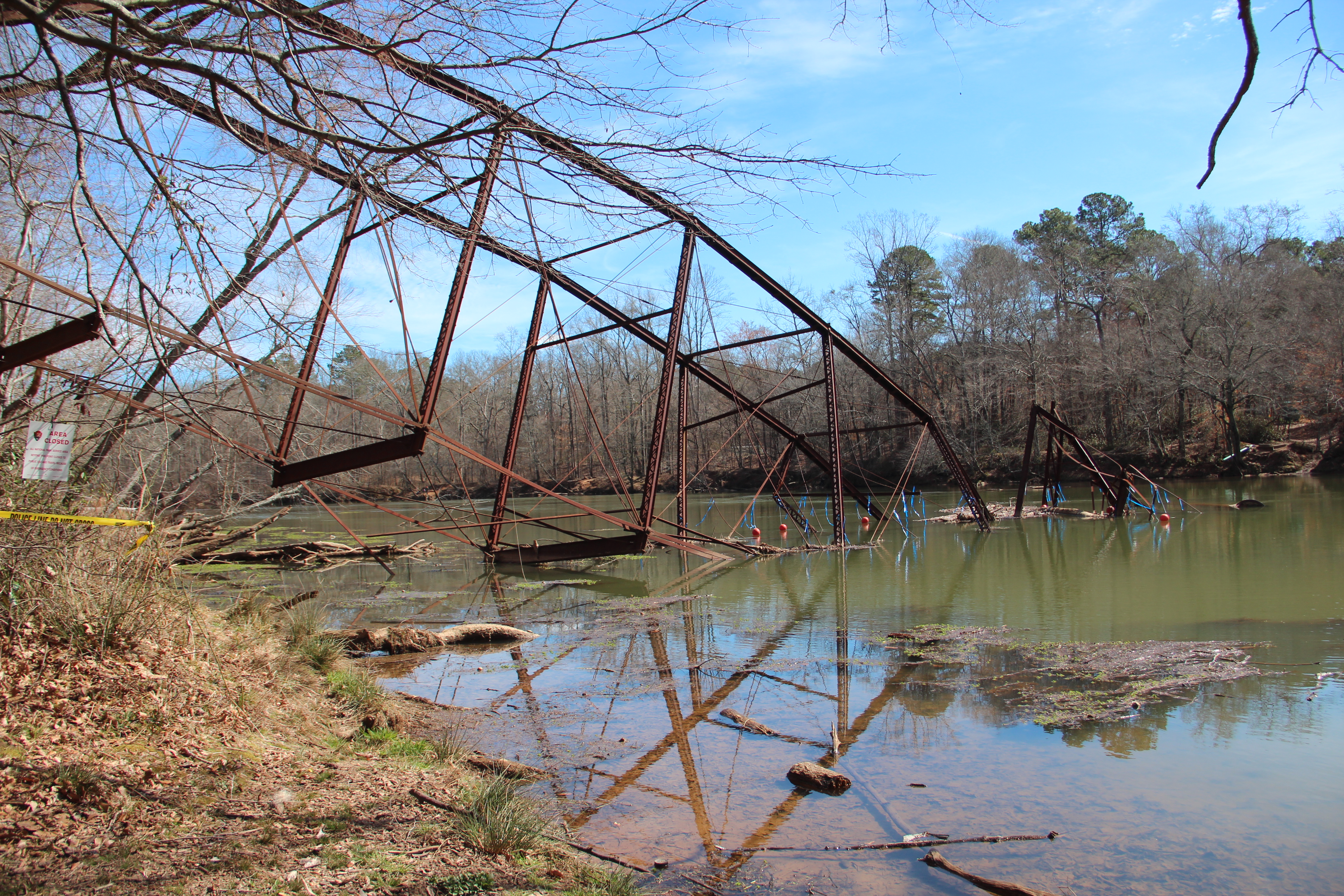 Jones Bridge ruins, Chattahoochee River National Recreation Area